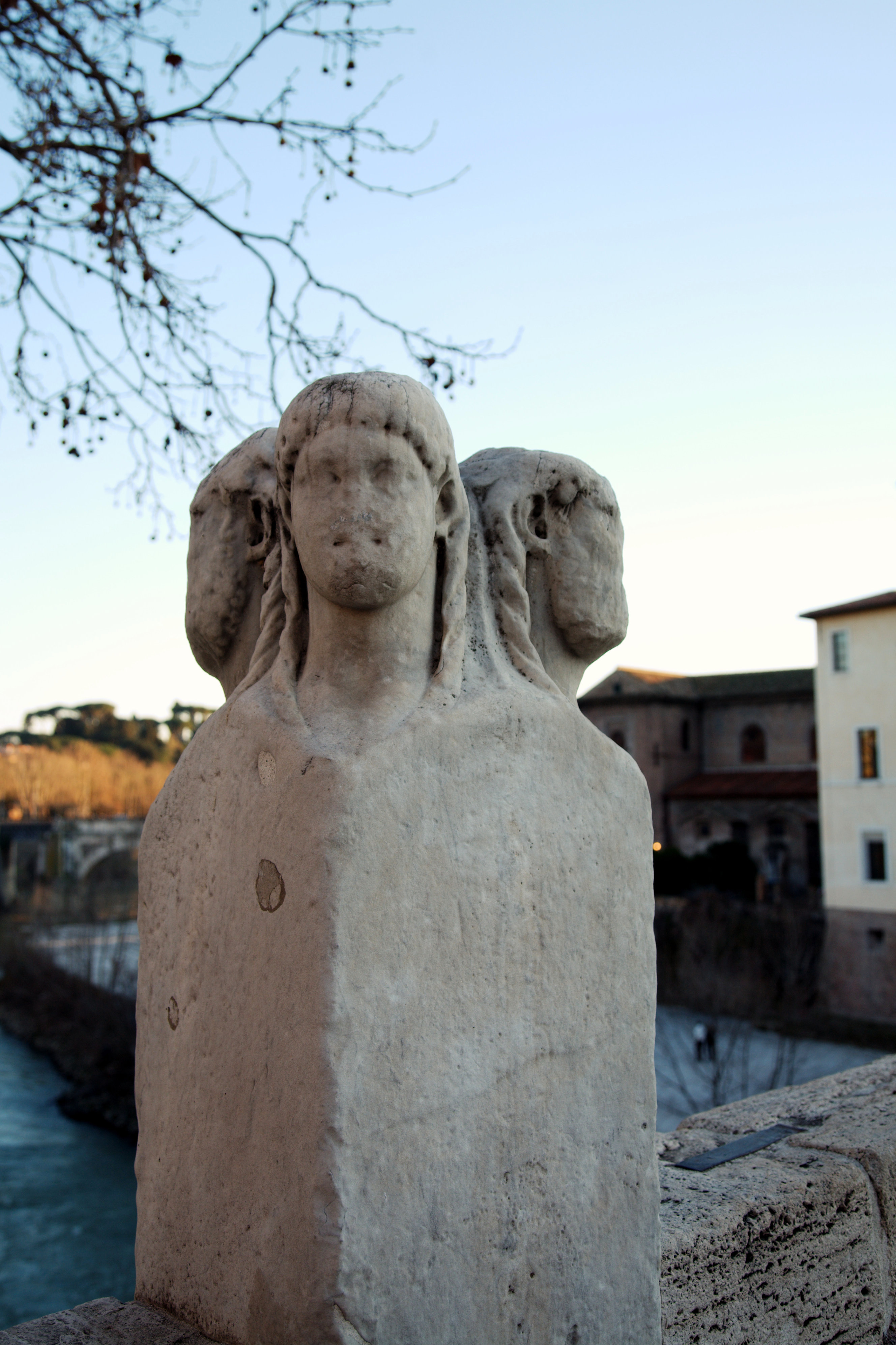 Ponte Quattro Capi, one of the steles with the heads